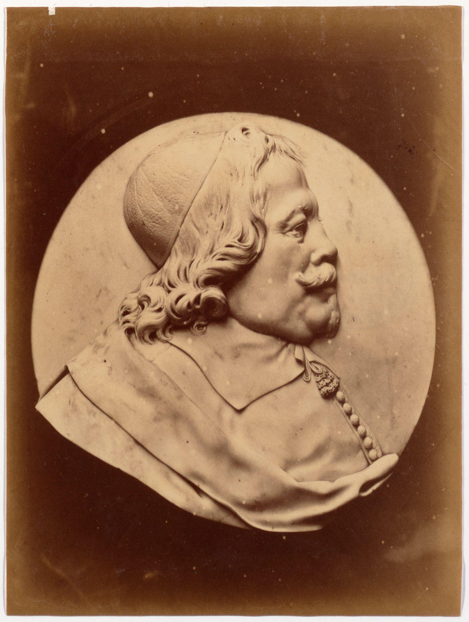 Artus Quellinus (I) (1609, Antwerp – 1668, idem). Cornelis de Graeff (1599-1664).